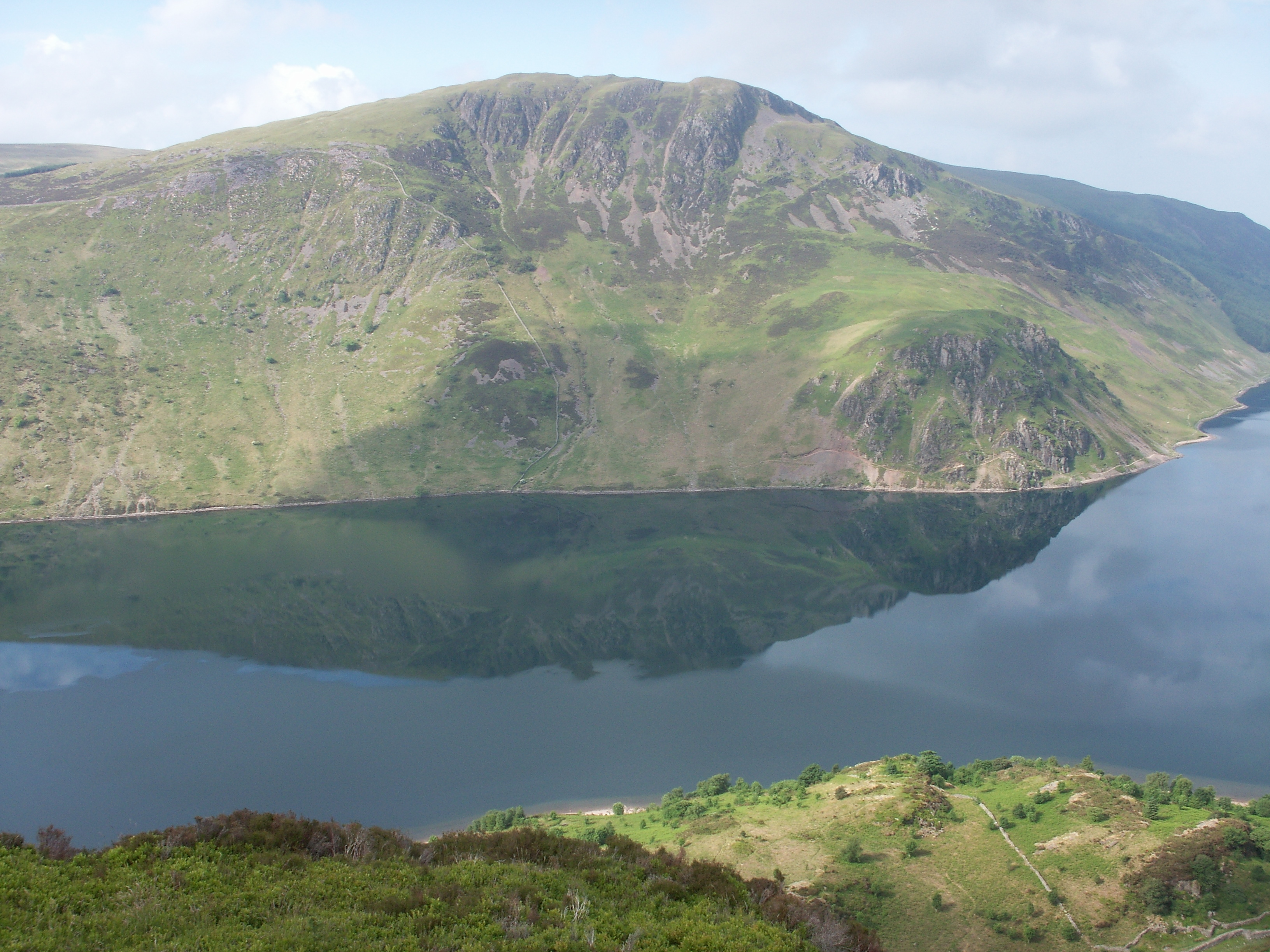 Crag Fell reflected in Ennerdale Water, Lake District, England